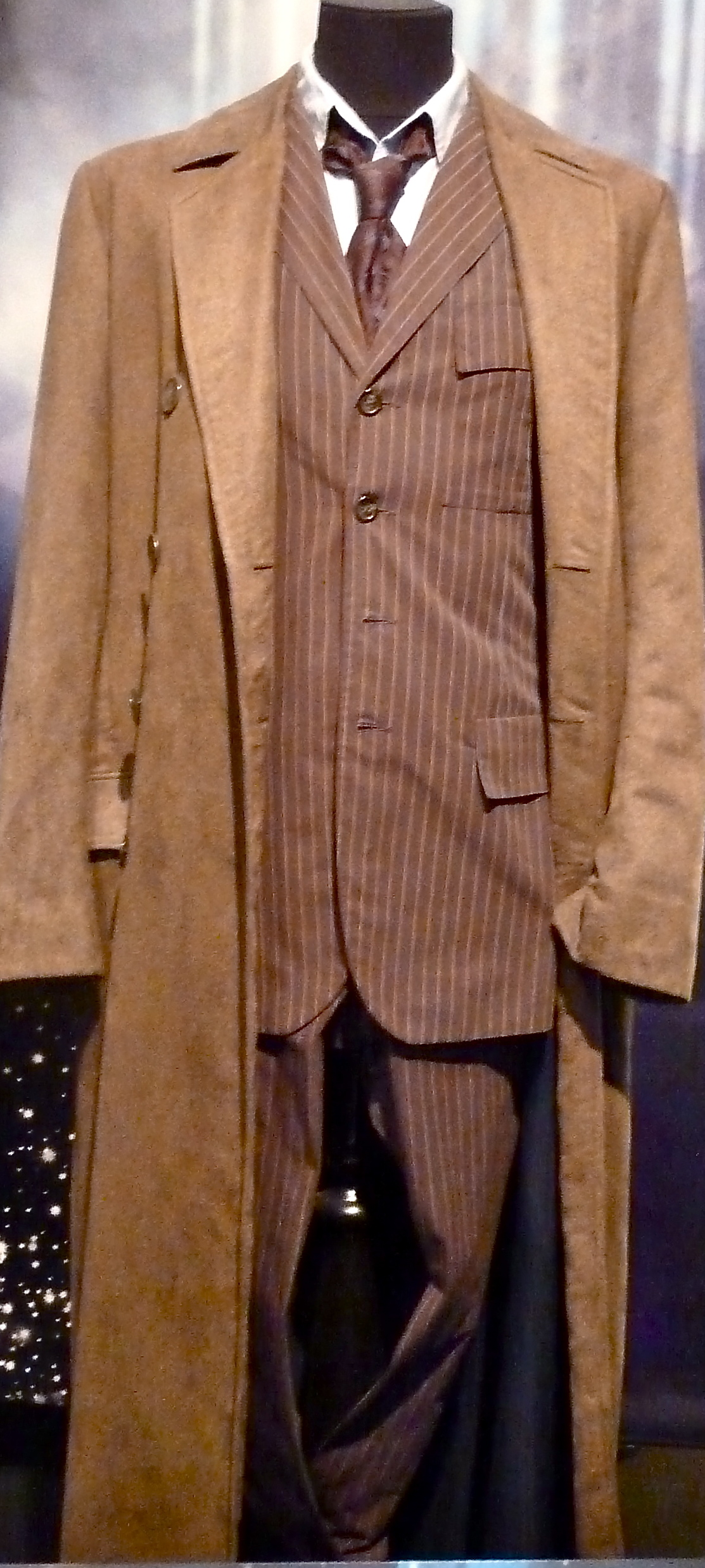 The Tenth Doctor Doctor Who Experience